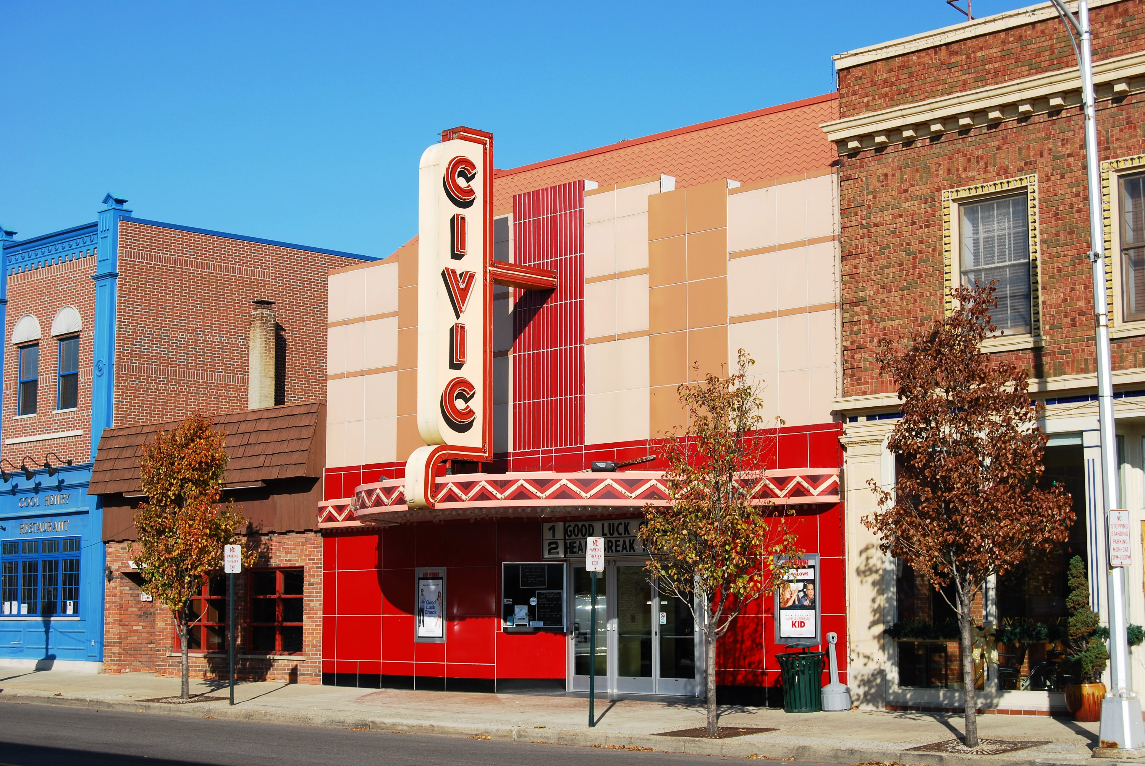 Civic Theater cinema — downtown Farmington, Michigan.